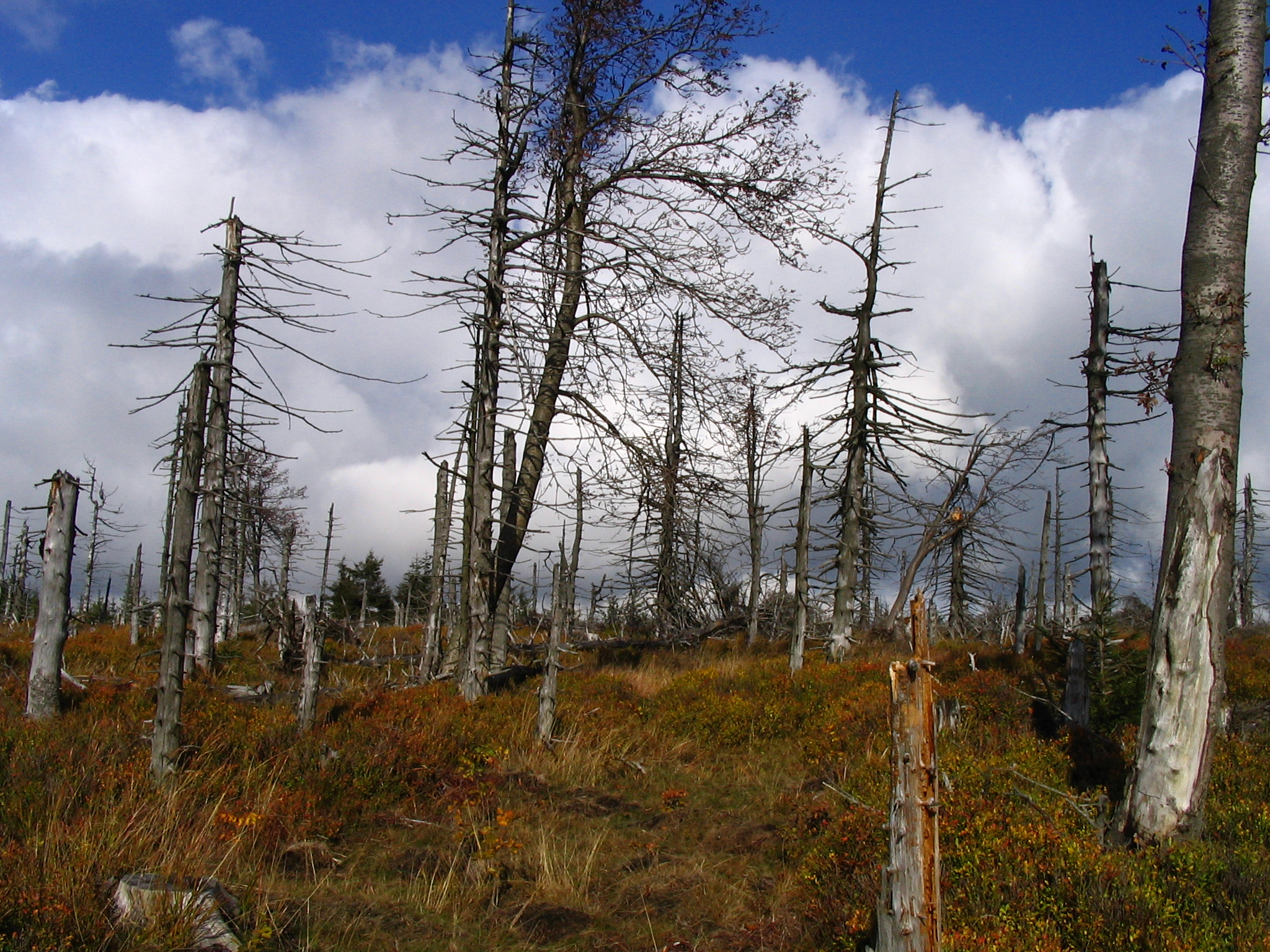 Destroyed forest in Góry Sowie, Sudety, Poland.